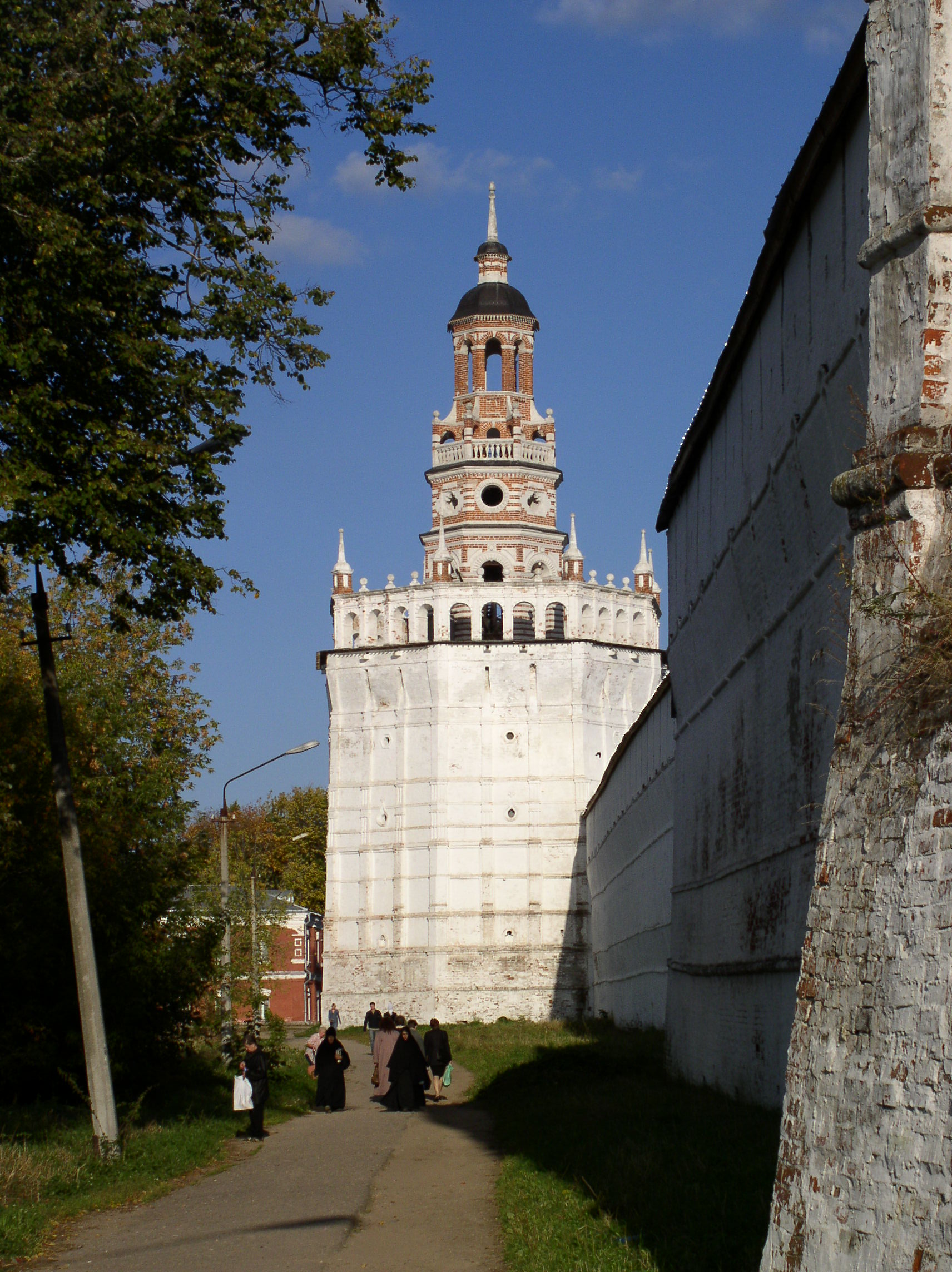 Duck tower. Troitse-Sergiyeva Lavra. Sergiev Posad, Russia.